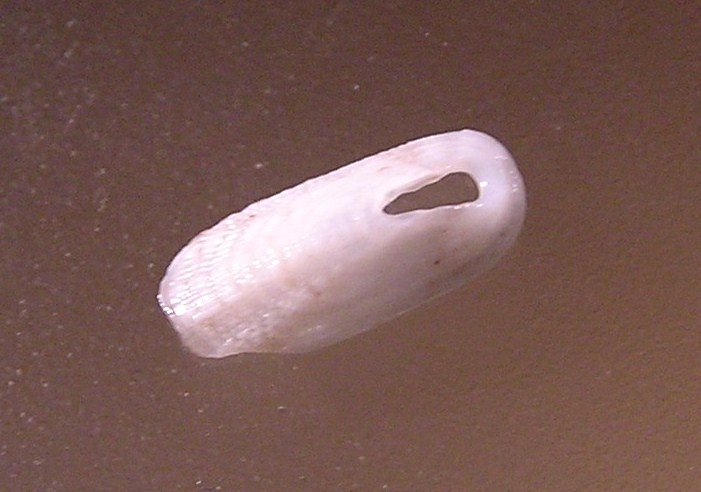 Macroschisma munitum (Iredale, 1940); a keyhole limpet from the family Fissurellidae; Australia